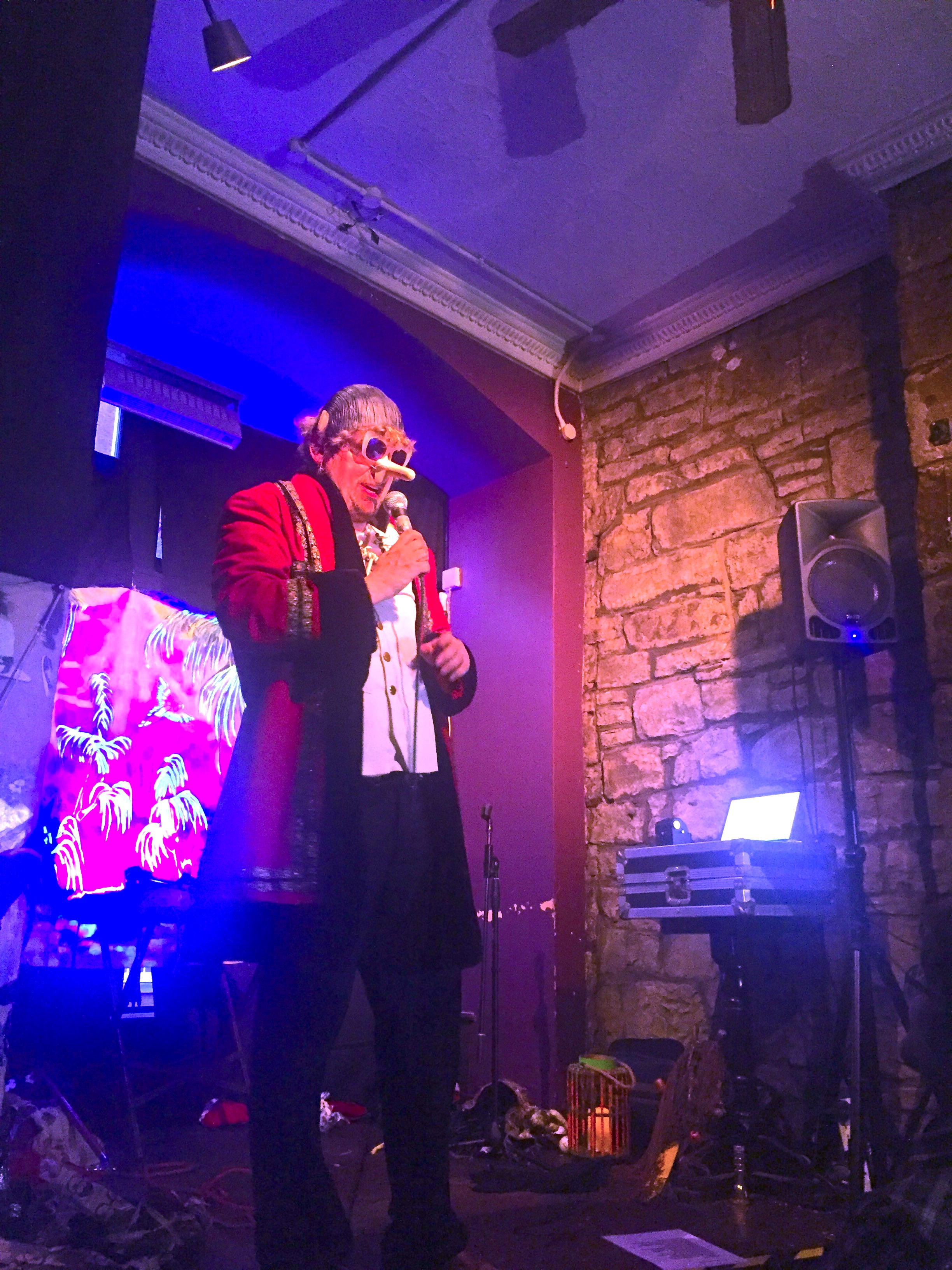 Photo of Performing artist